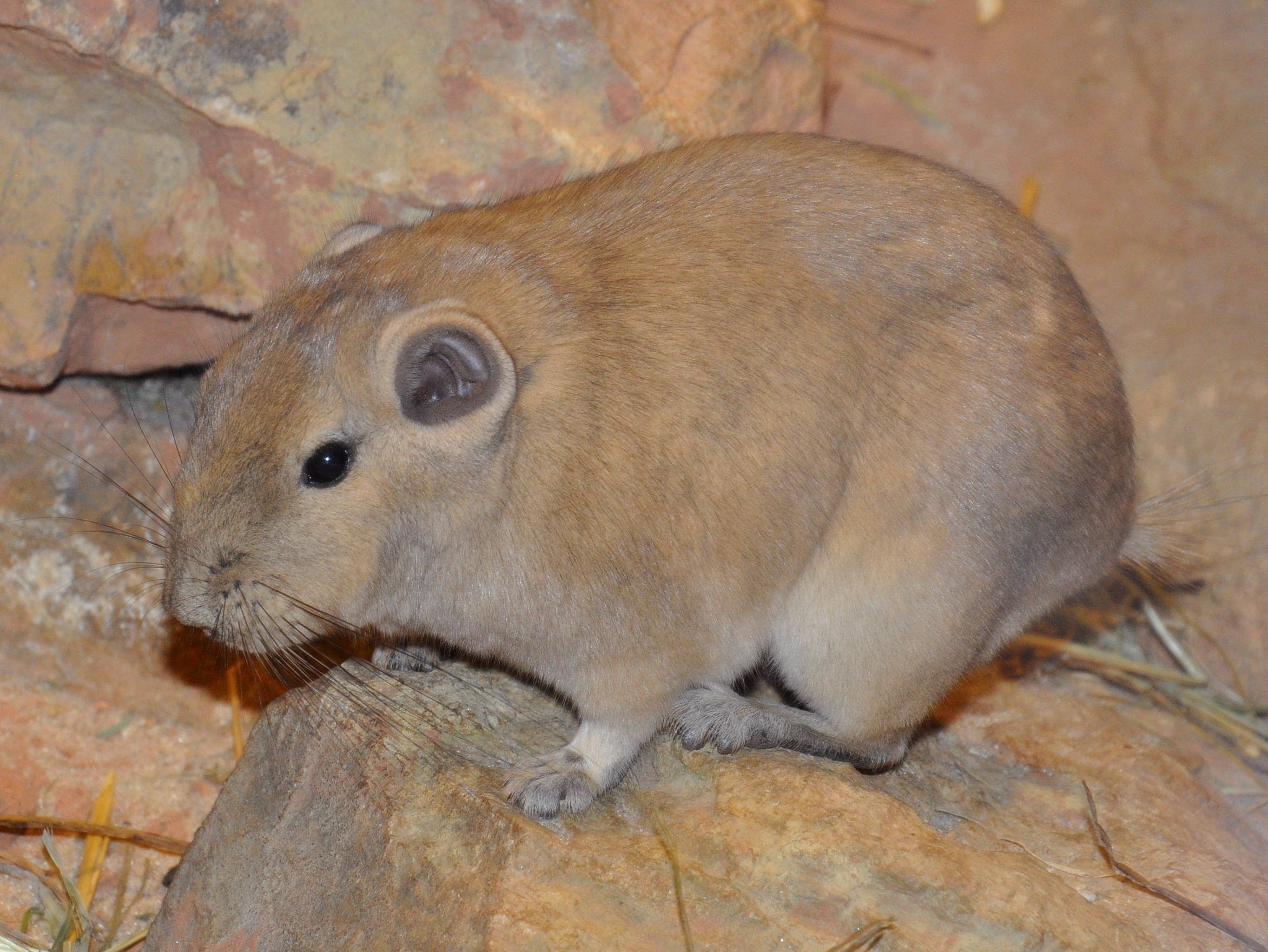 Ctenodactylus gundi